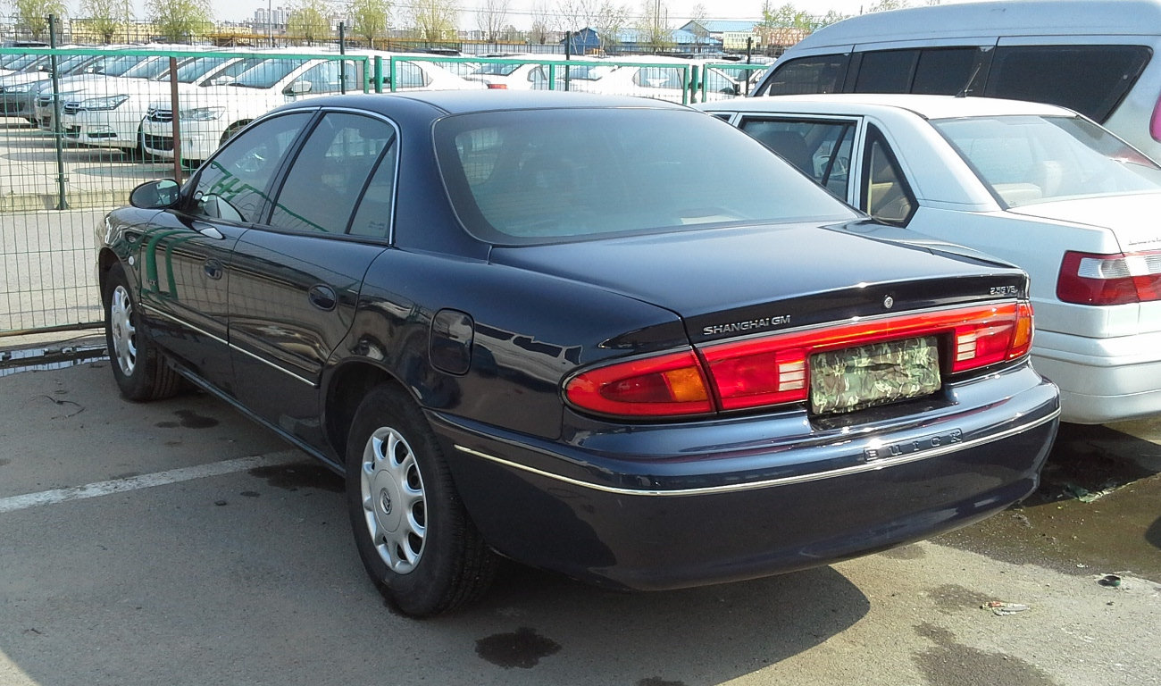 Buick "New Century" G photographed in Beijing, China.